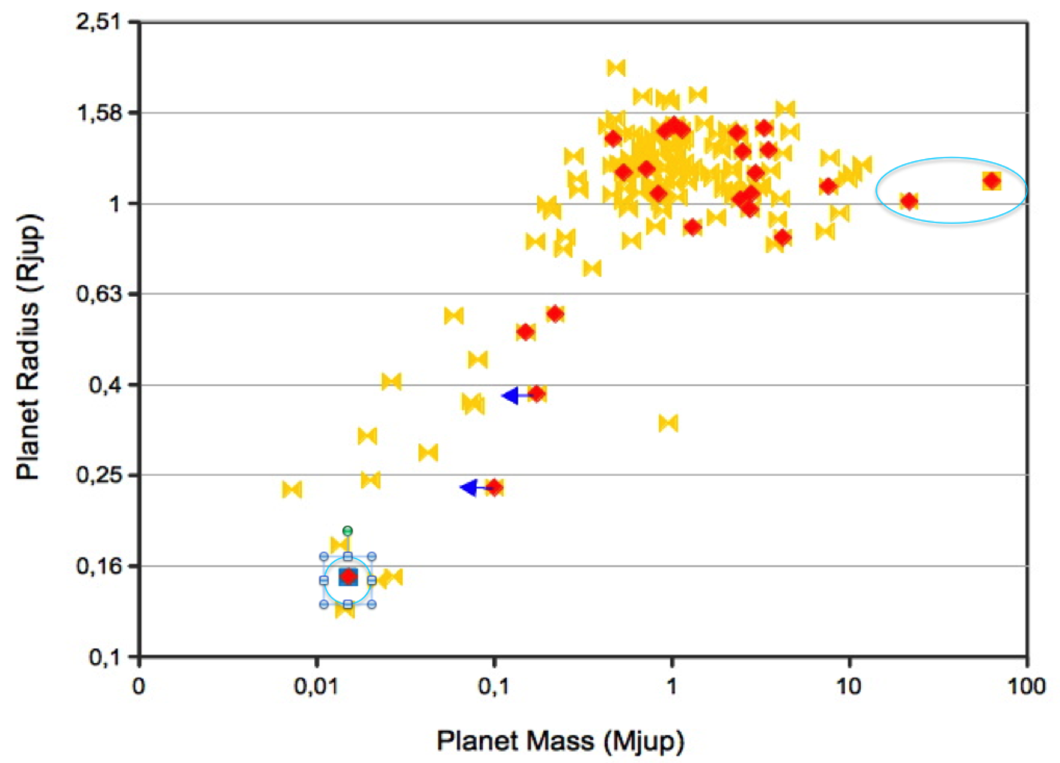 The CoRoT planets (red diamonds) on the Radius / Mass diagram. The oval at right identifies the two brown dwarves and the circle at left the rock solid Super-Earth Corot-7b